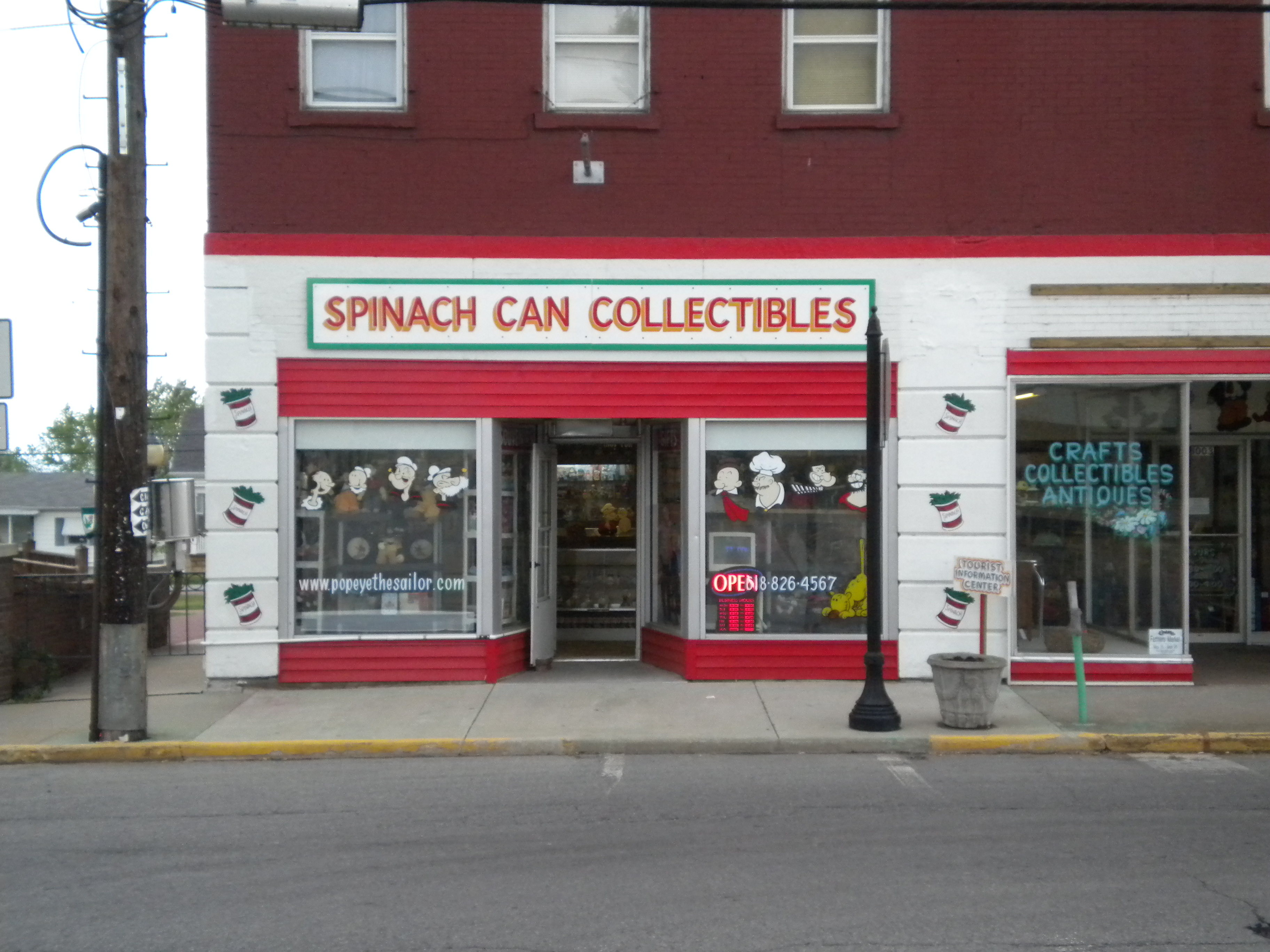 Spinach Can Collectables, 1001 State Street, Chester, Illinois. Home of the Popeye Museum and the Official Popeye Fanclub